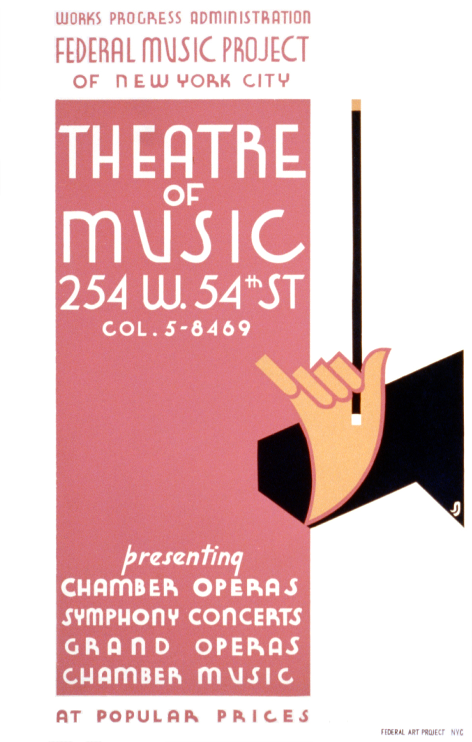 Title: Works Progress Administration Federal Music Project of New York City Theatre of Music Abstract: Poster for Federal Music Project of New York City presentation of operas, concerts, and chamber music at the Theatre of Music, 254 W. 54th St., New York City, New York. Physical description: 1 print on board (poster) : silkscreen, color. Notes: Work Projects Administration Poster Collection (Library of Congress).